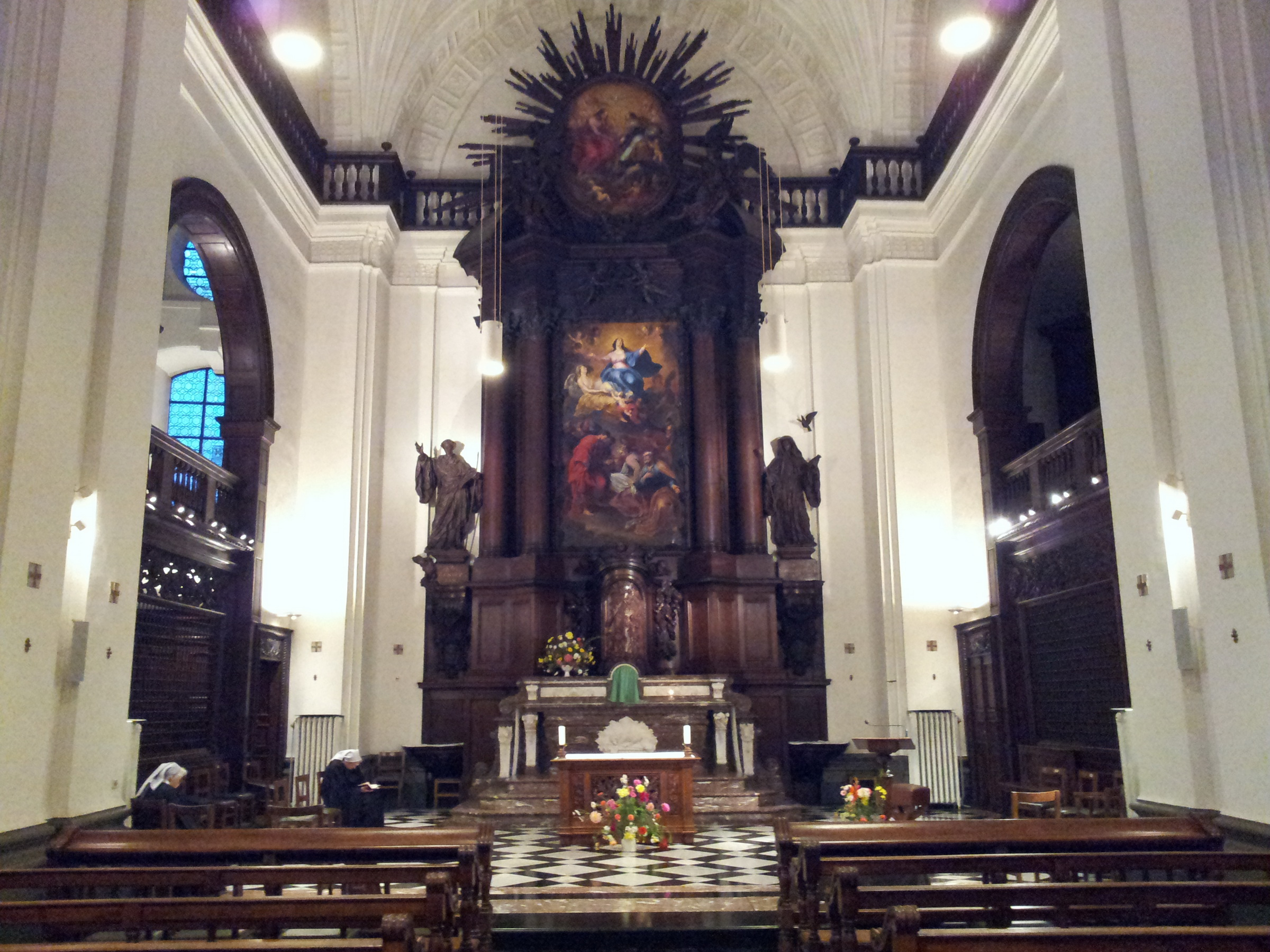 Baroque interior of the abbey church of Paix Notre-Dame in Liège, Belgium.